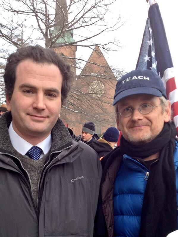 Lawrence Lessig and Jeff Kurzon marching for campaign finance reform on January 20, 2014